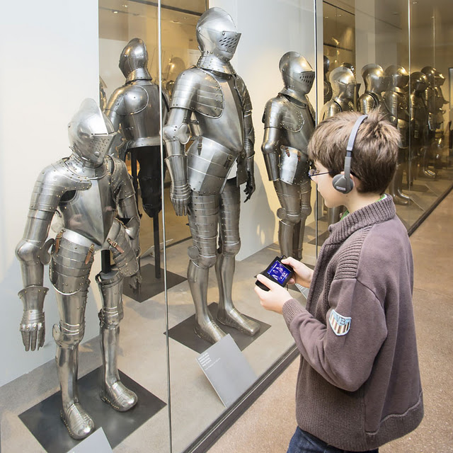 Médiation et audio guide